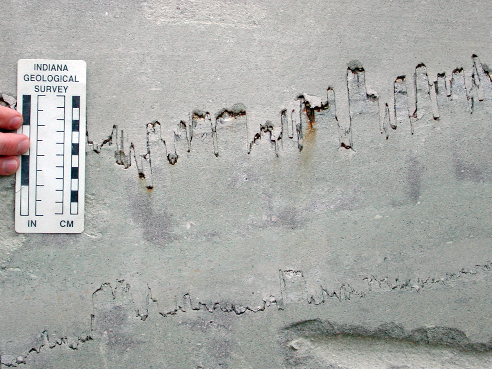 Stylolites in the Salem Limestone (Mississippian) near Bloomington, Indiana.